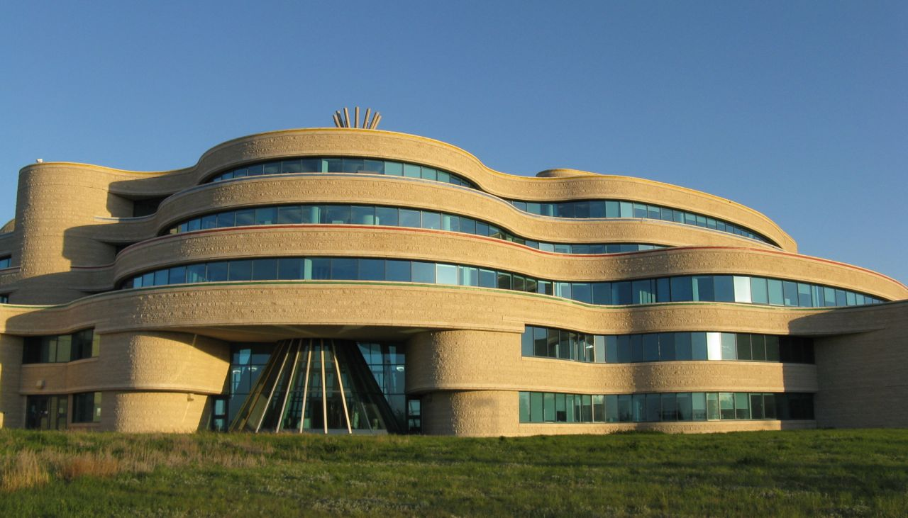 Regina, Saskatchewan